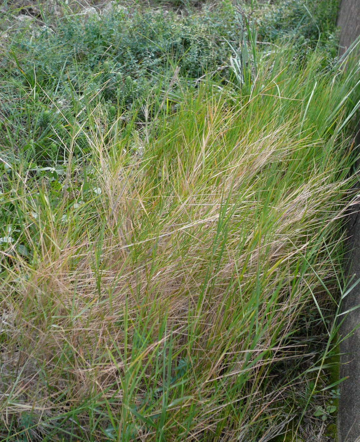 Bracypodium retusum in Canyelles, Garraf, Catalonia. I made the photo on january 28th 2007.